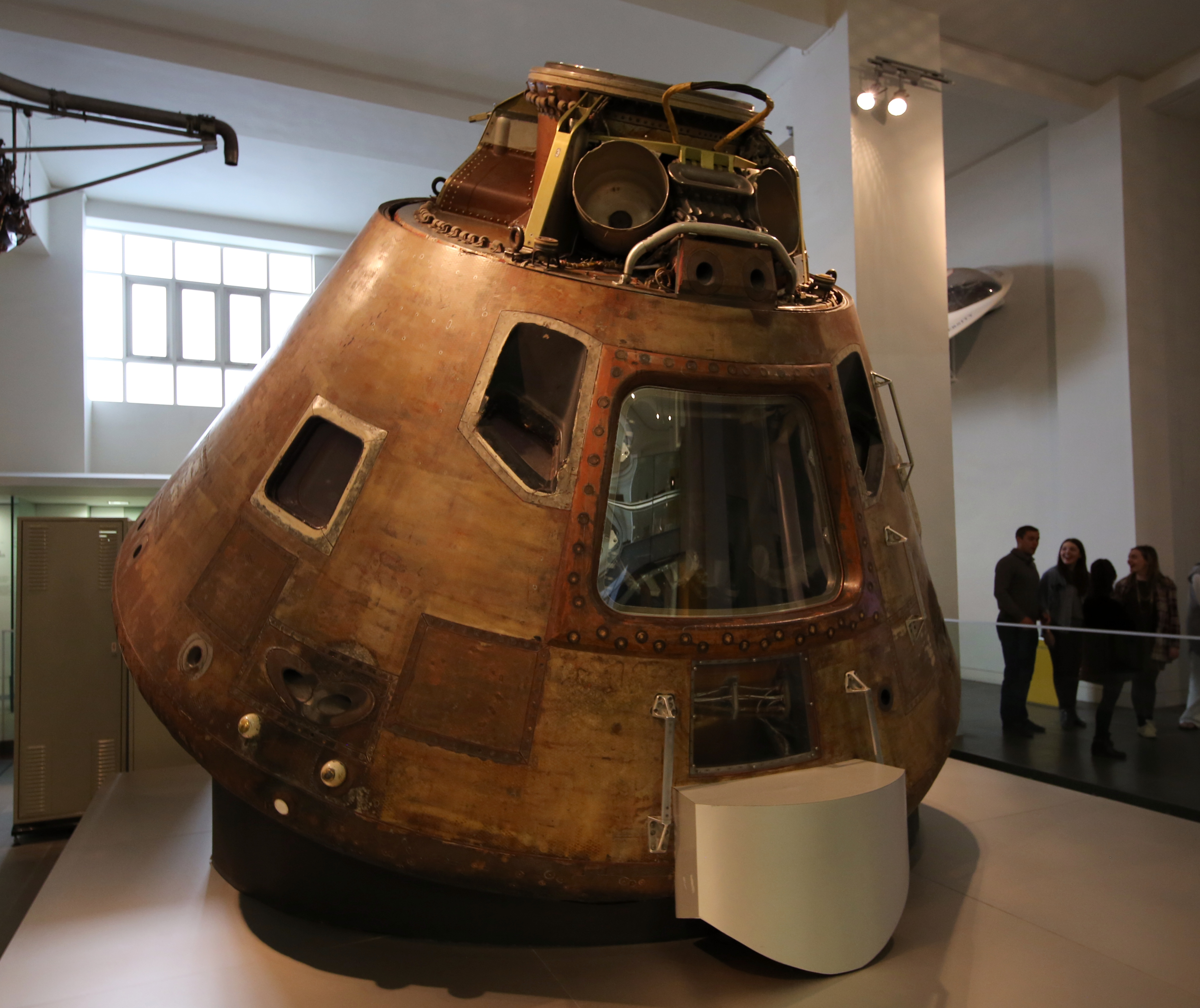 Apollo 10 comand module on display at the science museum